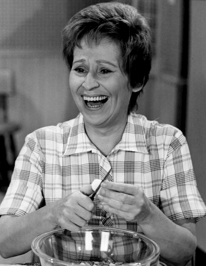 Photo of Alice Ghostley as Cousin Alice, the housekeeper from the television program Mayberry R.F.D.. Ghostley replaced Frances Bavier as Aunt Bee when Bavier left the role.